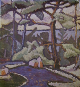 Landscape - oil painting by Joel Petterson (died 1937)